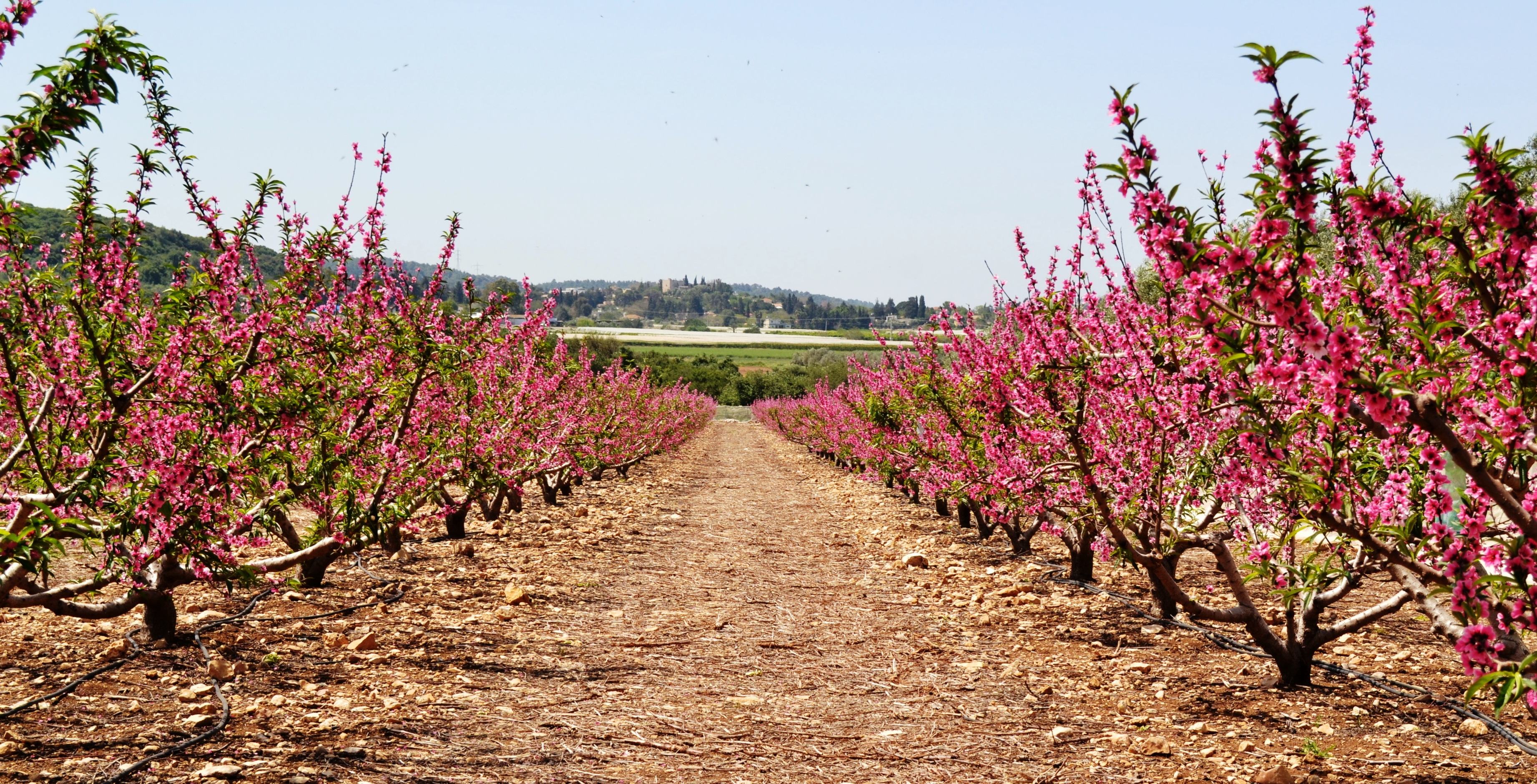 Geography of Israel